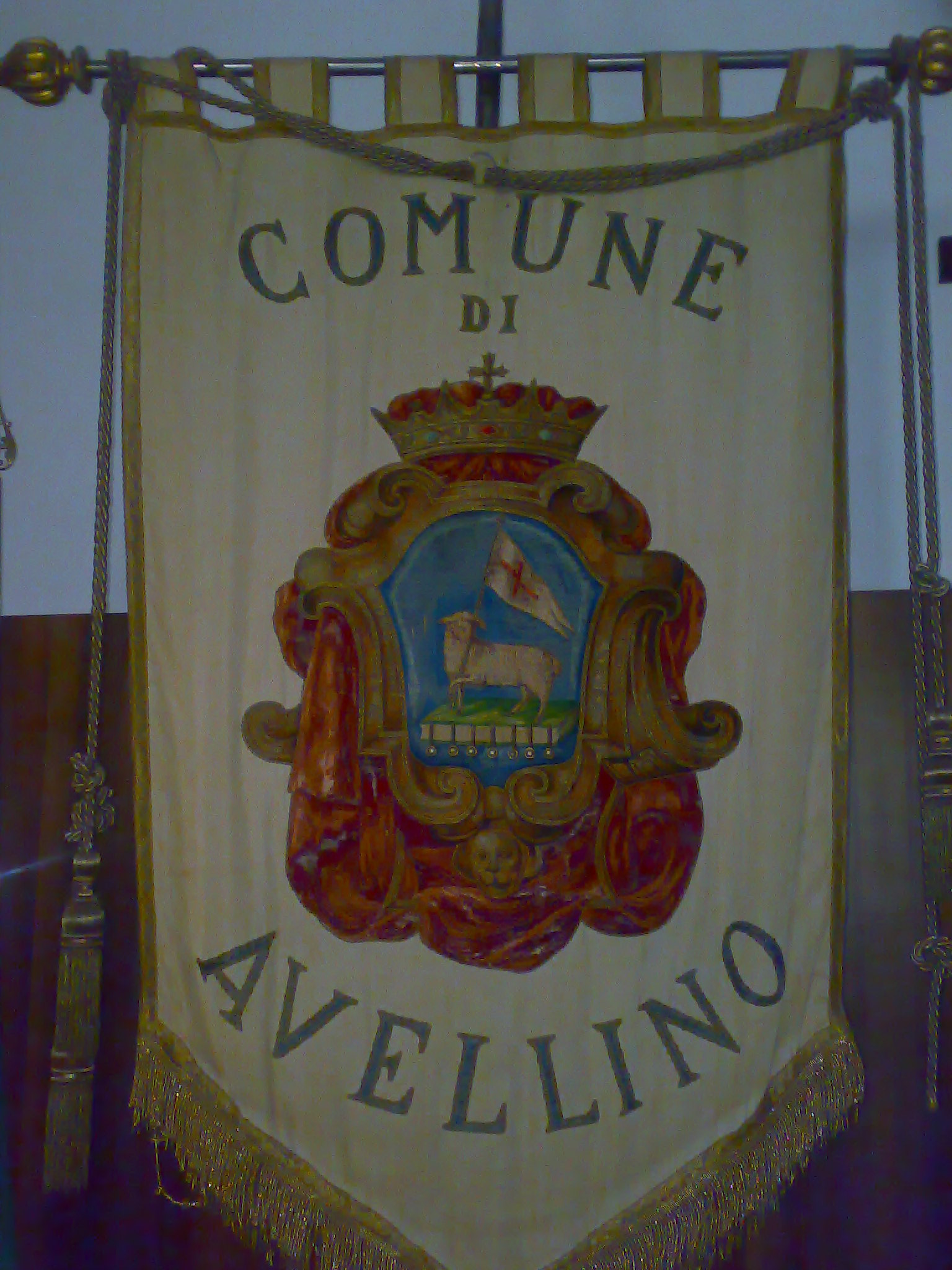 Gonfalone di Avellino